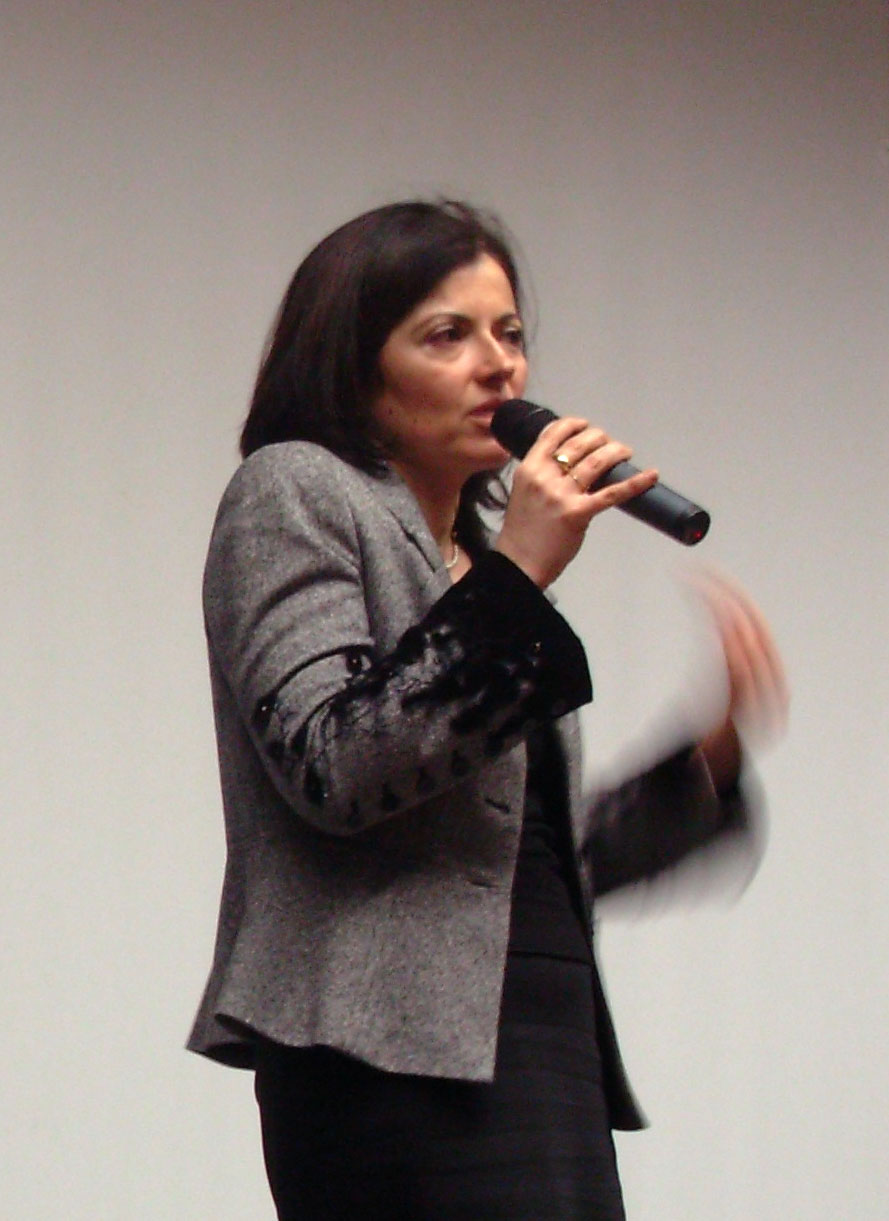 Imma Tor, Andorran diplomate, during the lecture at EPF